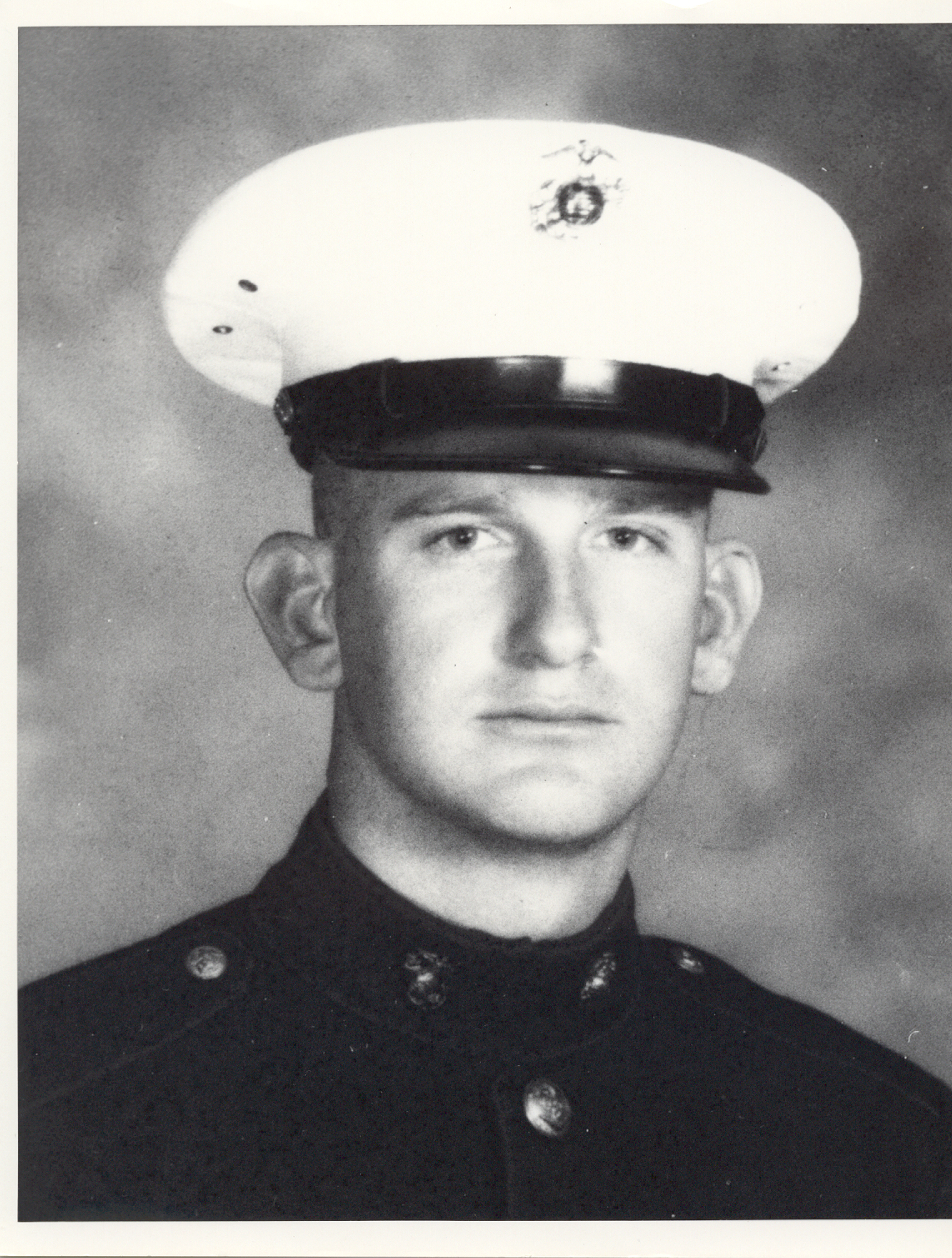 James D. Howe, USMC; posthumous Medal of Honor recipient (1970); photo from official Marine Corps biography at